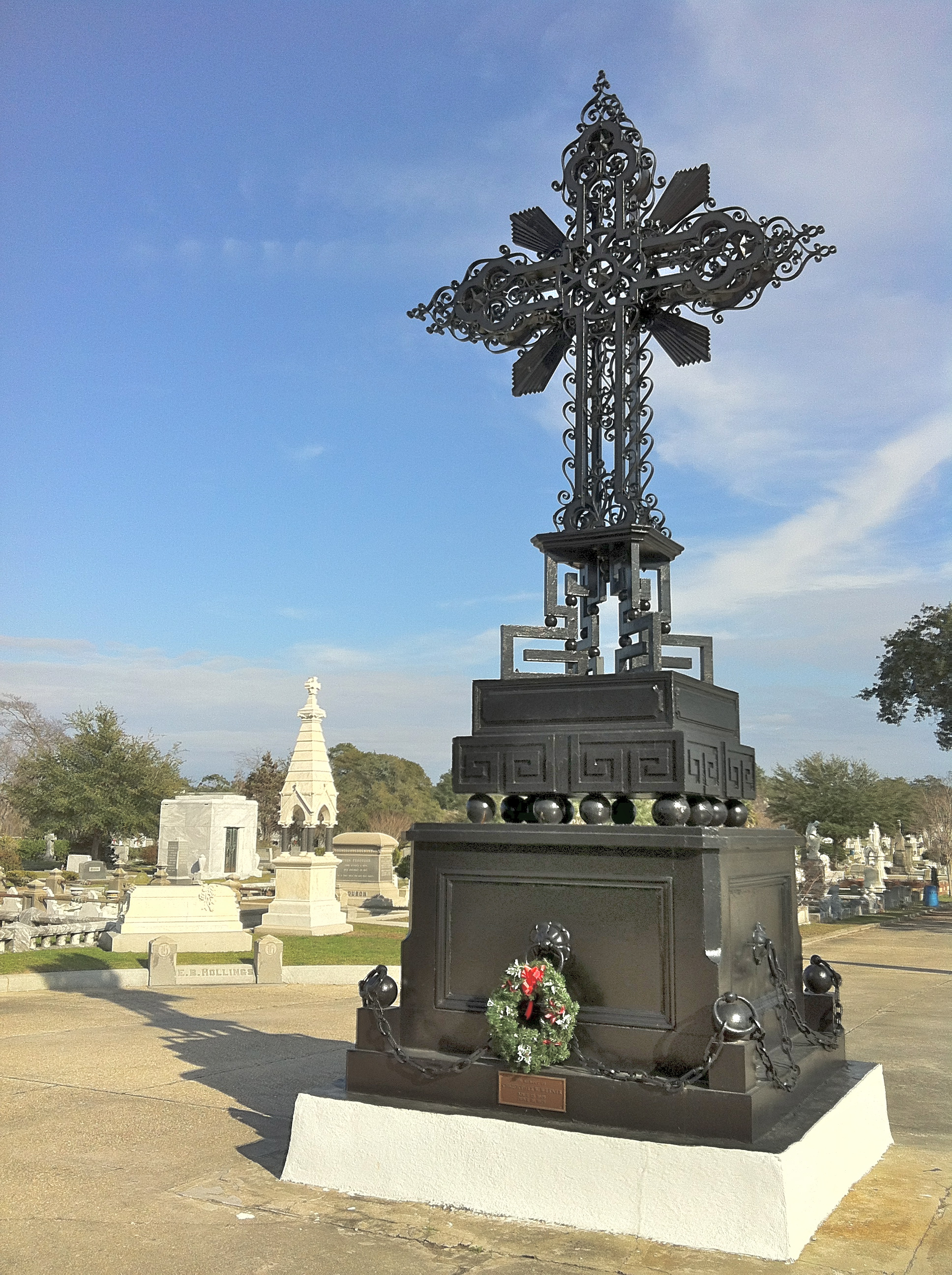 The Cross at the entrance to St. Lawrence Cemetery created by Christopher Werner prior to his death and donated to the cemetery by his wife to mark his burial. A 1918 plat of the cemetery shows the Werner family owning the plot at the present site of the cross.